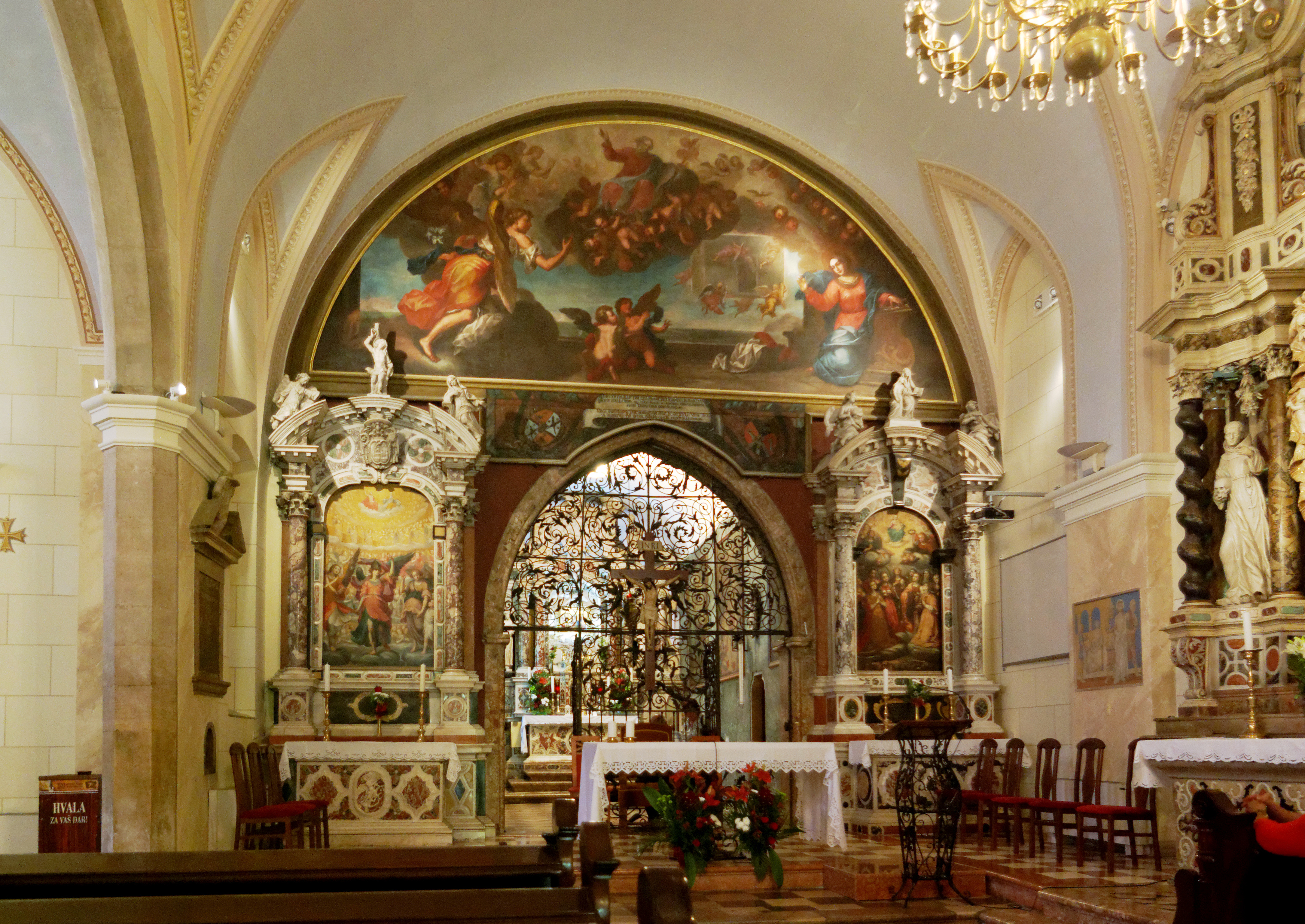 Croatia, Trsat, Church of Our Lady